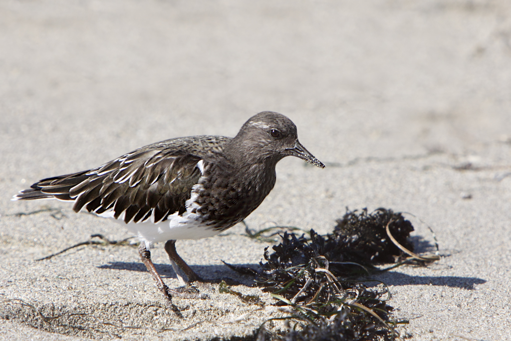 Adult Black Turnstone Arenaria melanocephala in non-breeding plumage, foraging on the beach near Mendocino, California.